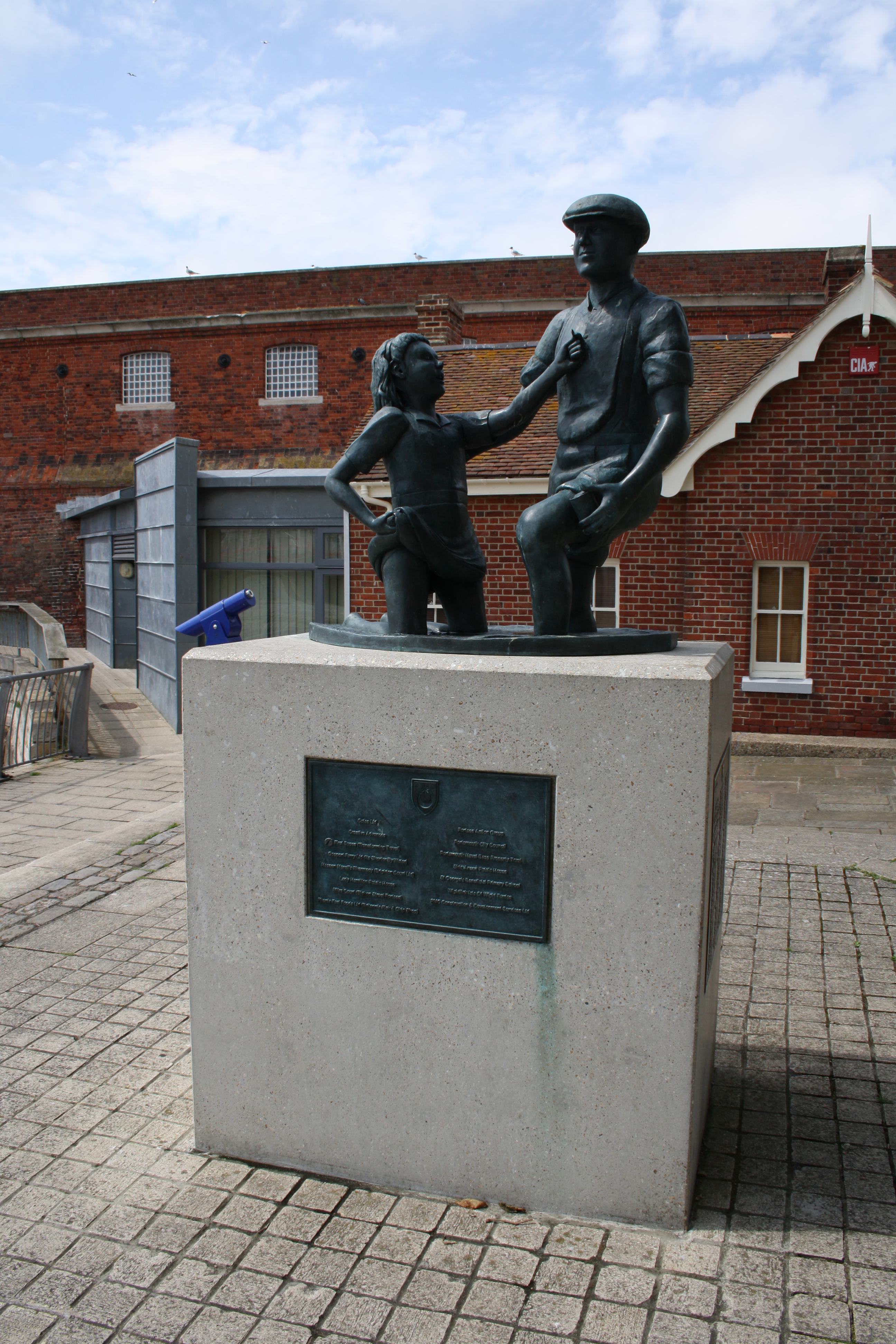 The Mudlarking Statue in Portsmouth